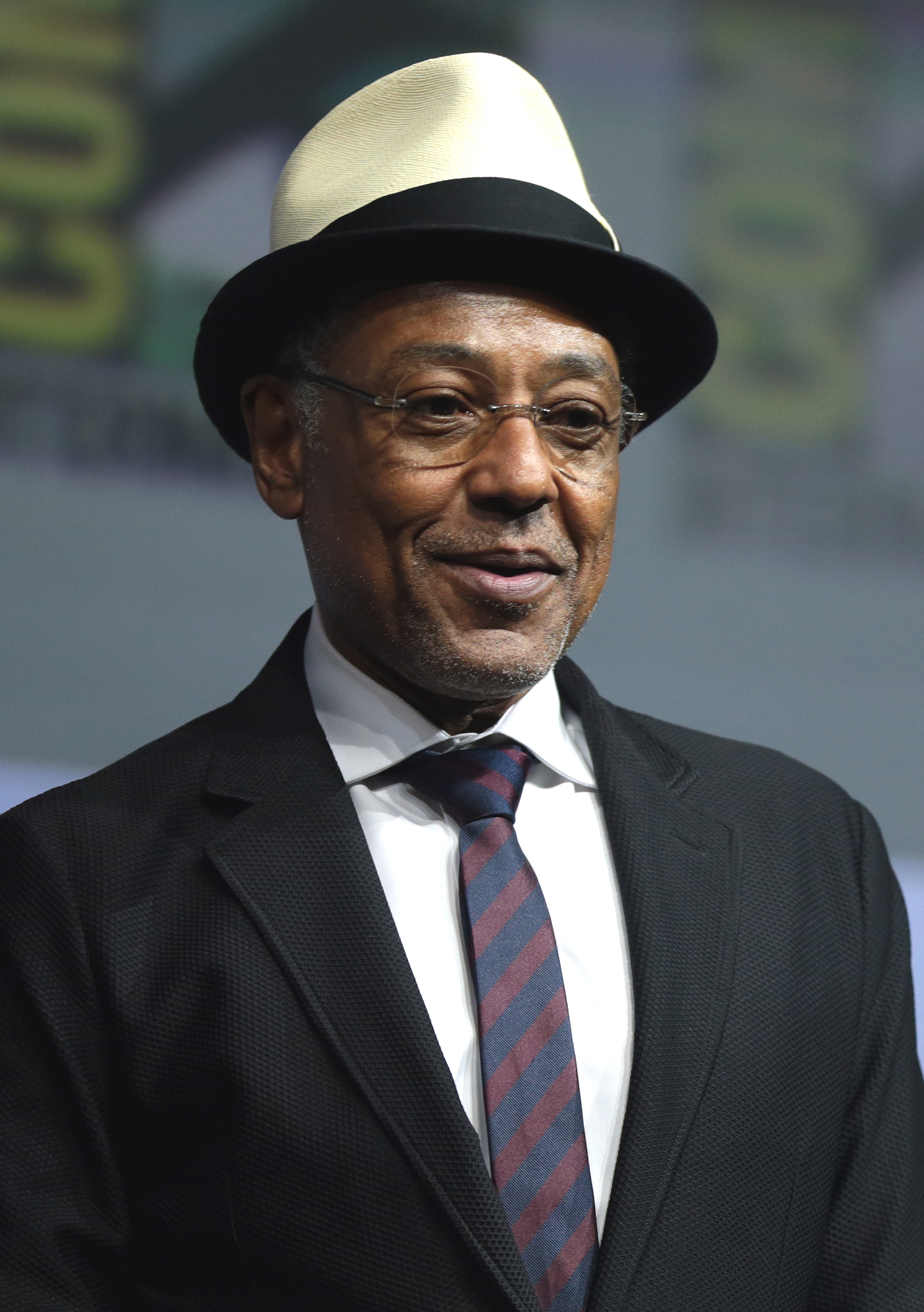 Giancarlo Esposito speaking at the 2018 San Diego Comic-Con International in San Diego, California.